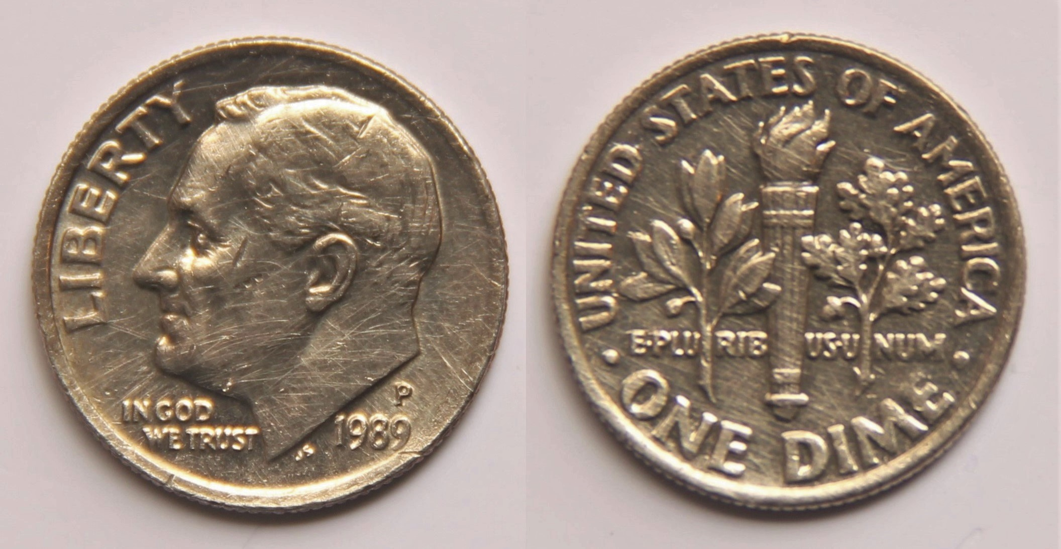 Face value: 1 Dime. Country: Dime (United States coin). Year of minting: 1989. Metal: Copper-nickel clad Copper. Shape: Round. Obverse: Portrait of Franklin D. Roosevelt, year and United States national motto (In God we trust). Reverse: Ahead the motto "E pluribus unum", an olive branch, a torch and an oak branch symbolizing respectively peace, liberty and victory and are surrounded with the face value and lettering "United States of America". Edge: Reeded. Weight: 2.268 g. Diameter: 17.91 mm. Thickness: 1.35 mm. Total mintage: 86,408,282,060 (1965-2015). Engraver: John R. Sinnock. Comment: Coin popularly know as "Roosevelt Dime". Monetization status: In circulation.. Data source: This webpage.